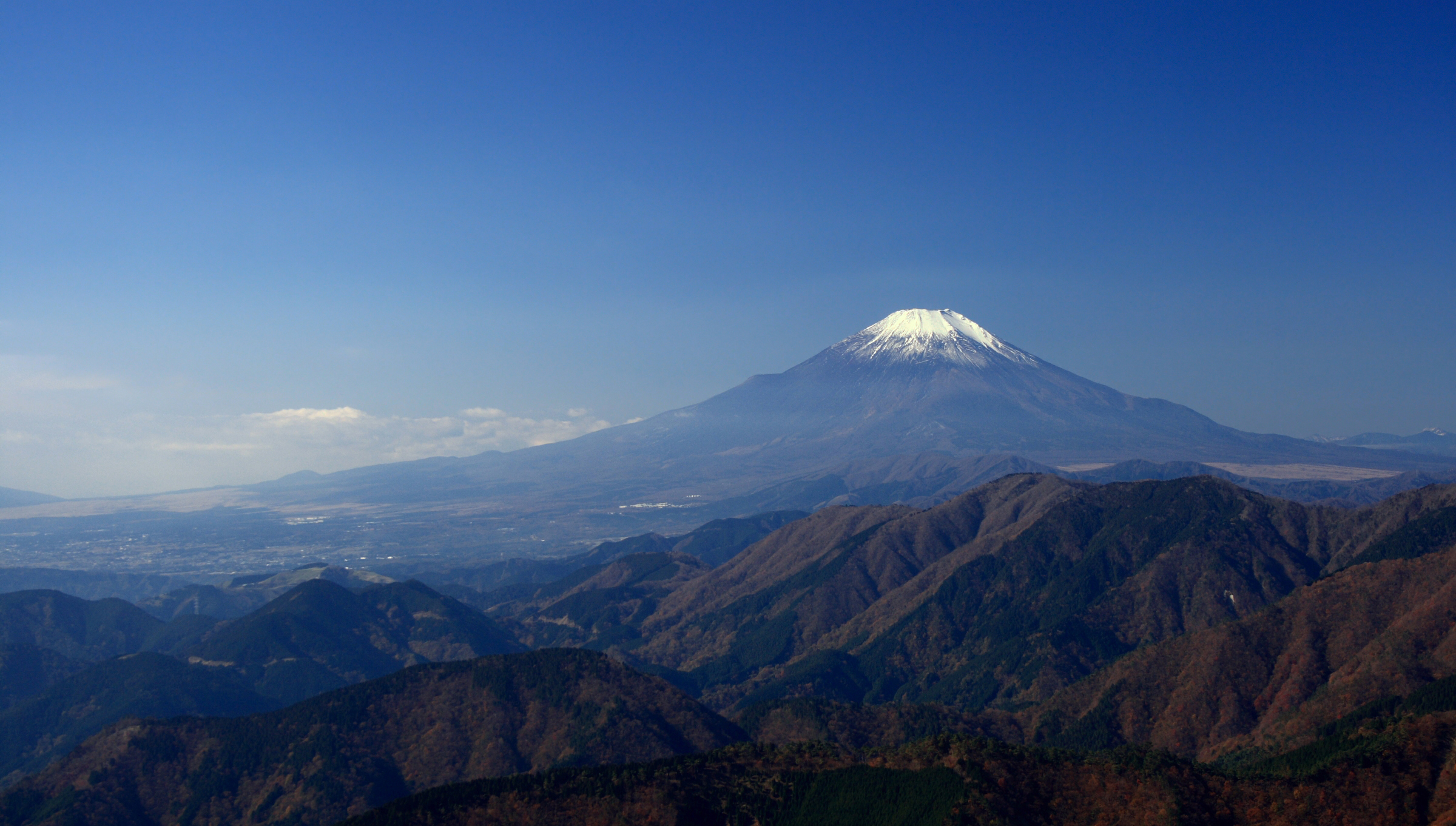 View of Mt. Fuji from Tanzawa, Kanagawa, Japan.